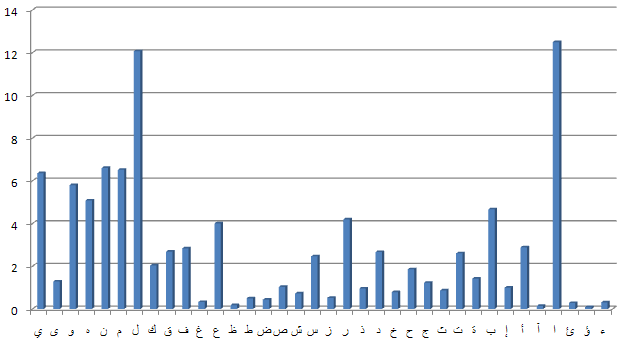 This image shows the frequency distribution of Arabic letters sorted according to Unicode values